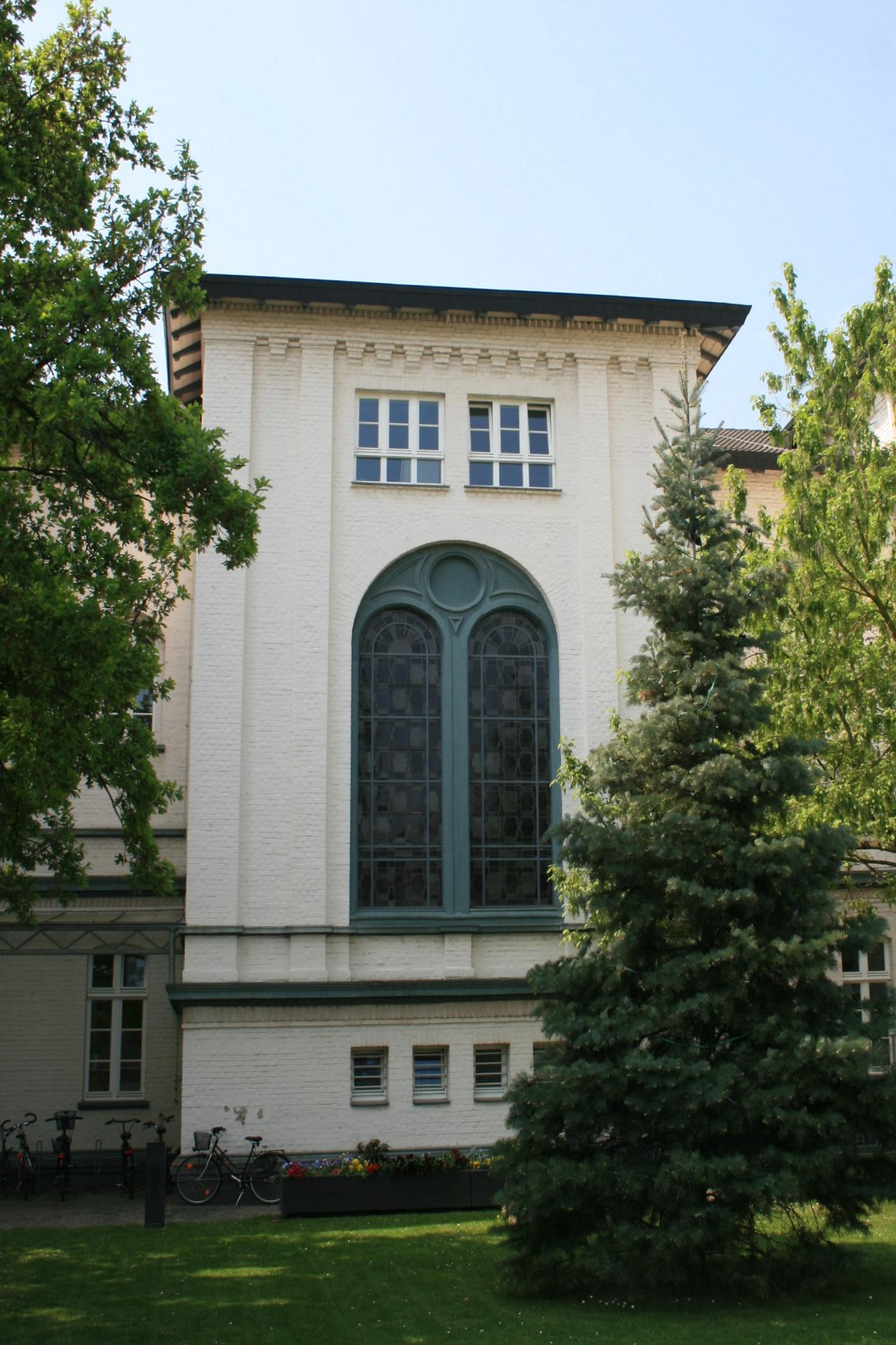 Cultural heritage monument No. 1/118 in Düren